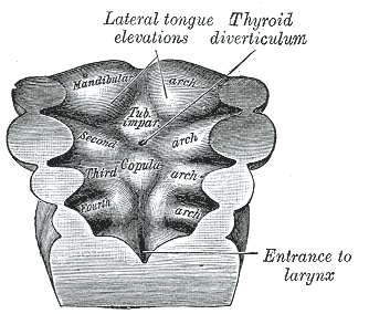 Floor of pharynx of embryo shown in Fig. 40.